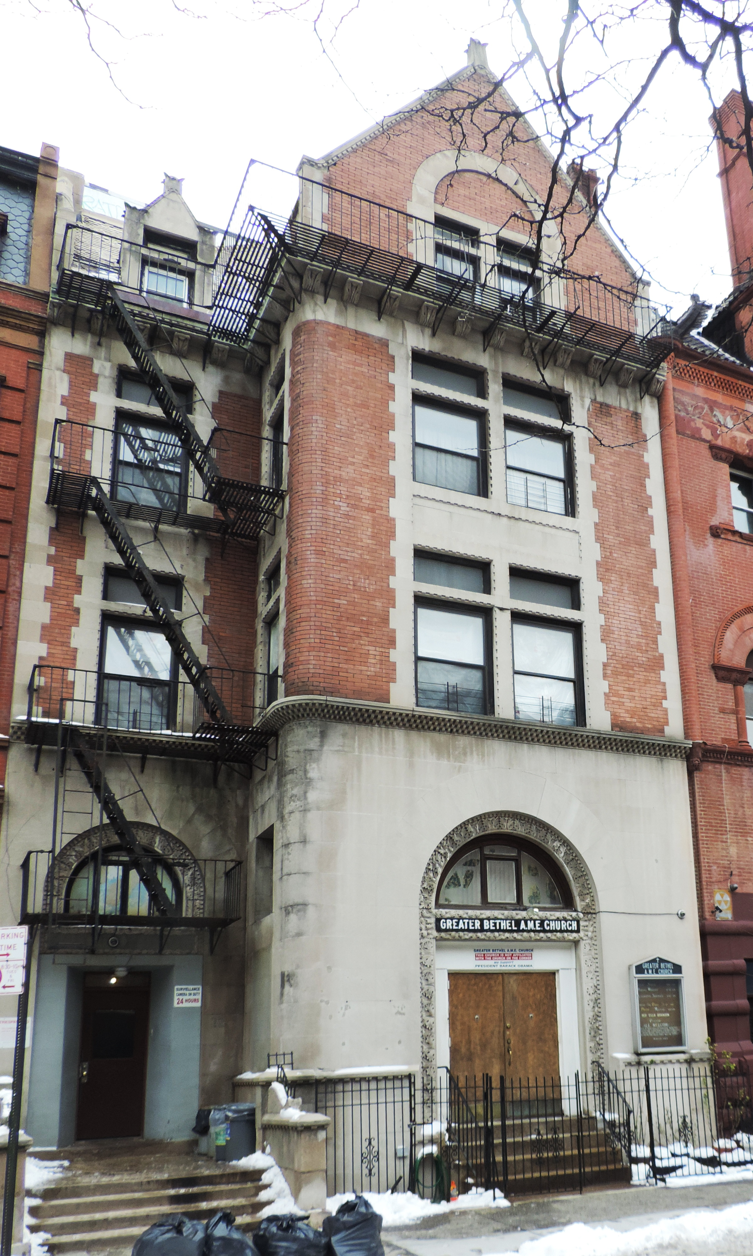 Looking southwest across 123rd St at church on a cloudy early afternoon.